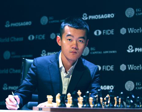 Ding Liren, Challengers Tournament (2018)